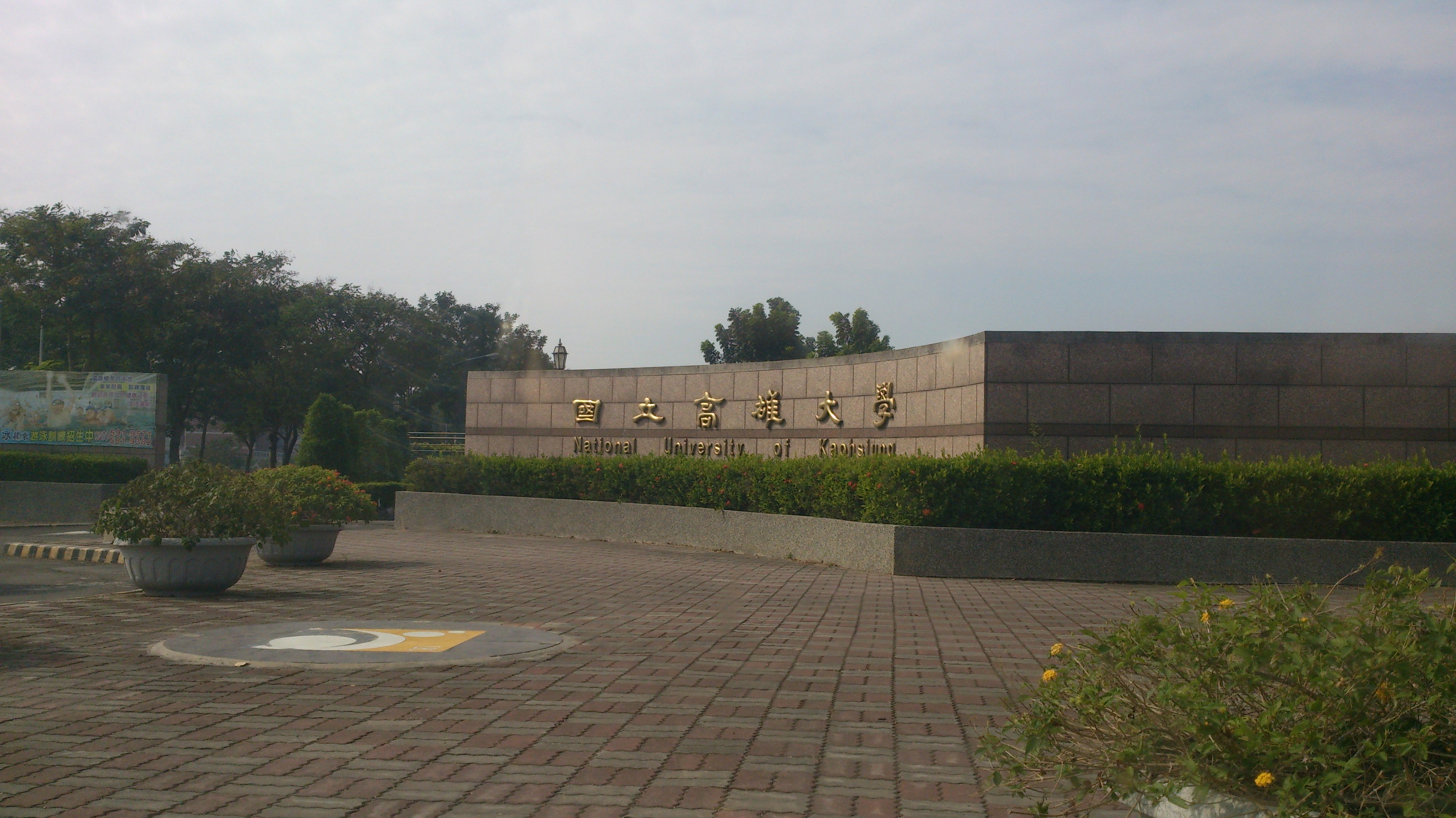 The school main gate of National University of Kaohsiung.